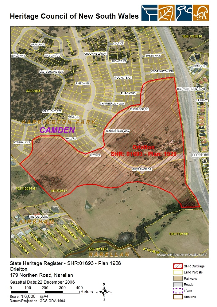 Orielton, Harrington Park: SHR Plan 1926